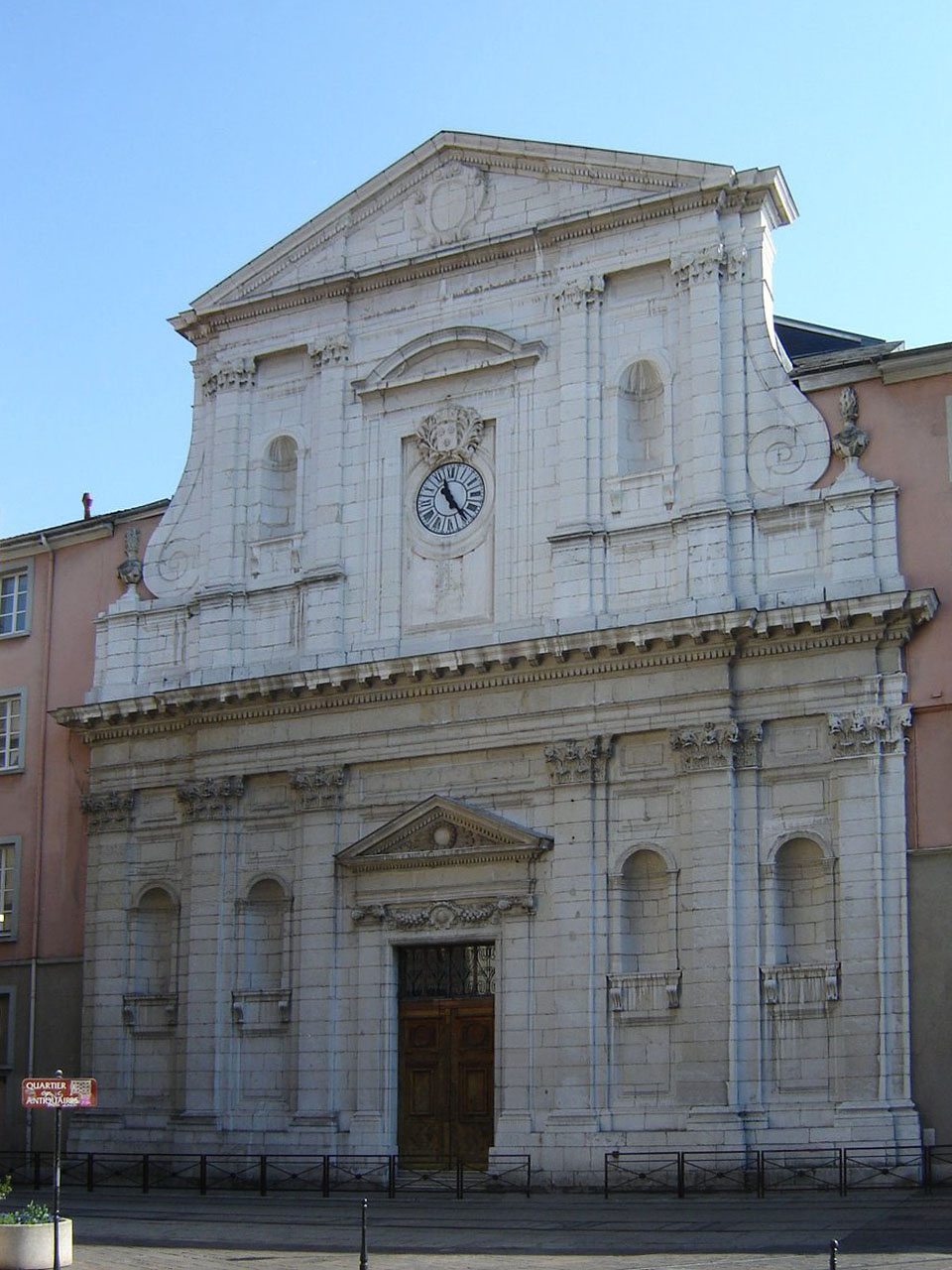 Stendhal college and lyceum, Grenoble, France